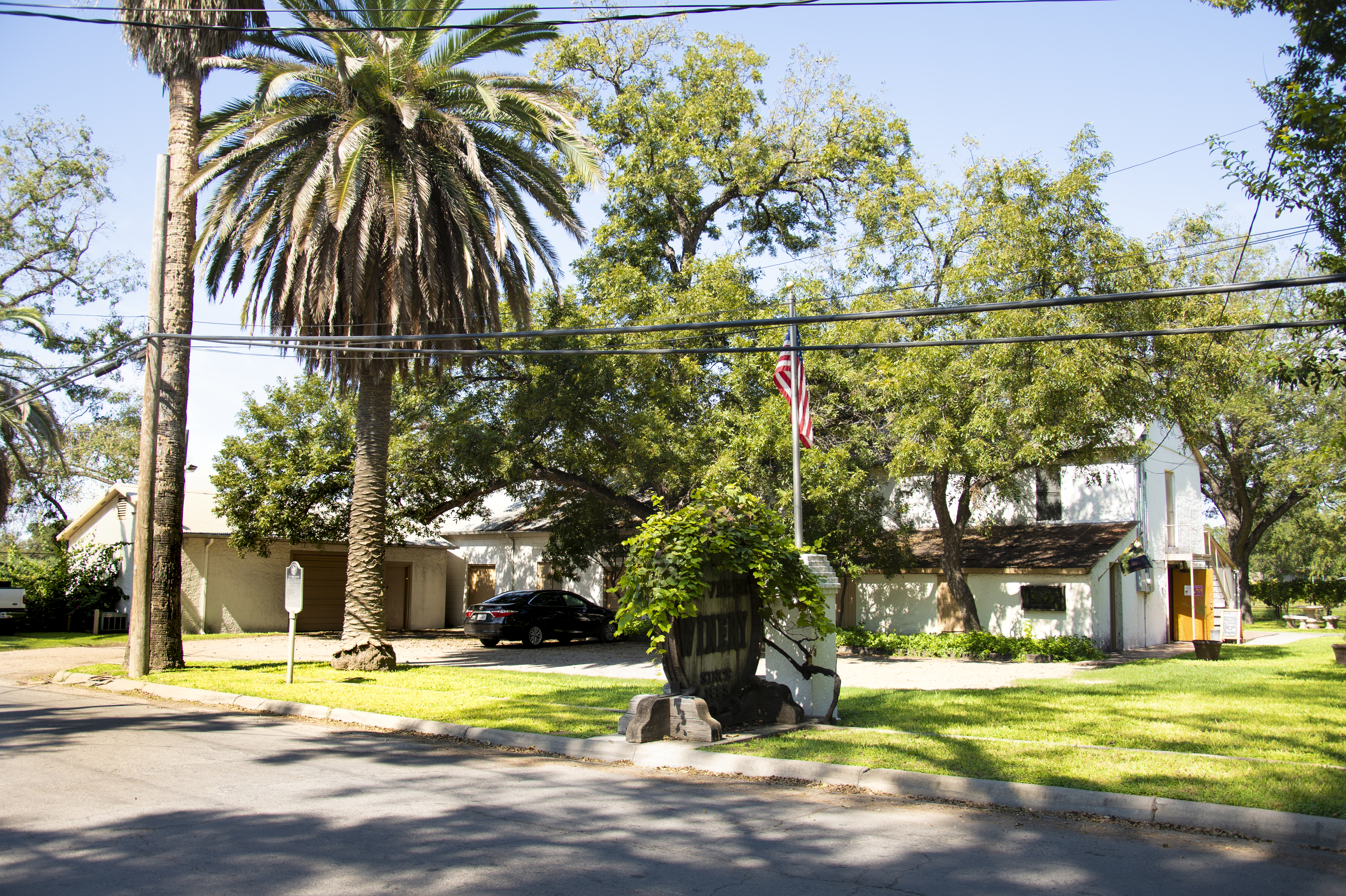 Winery Building